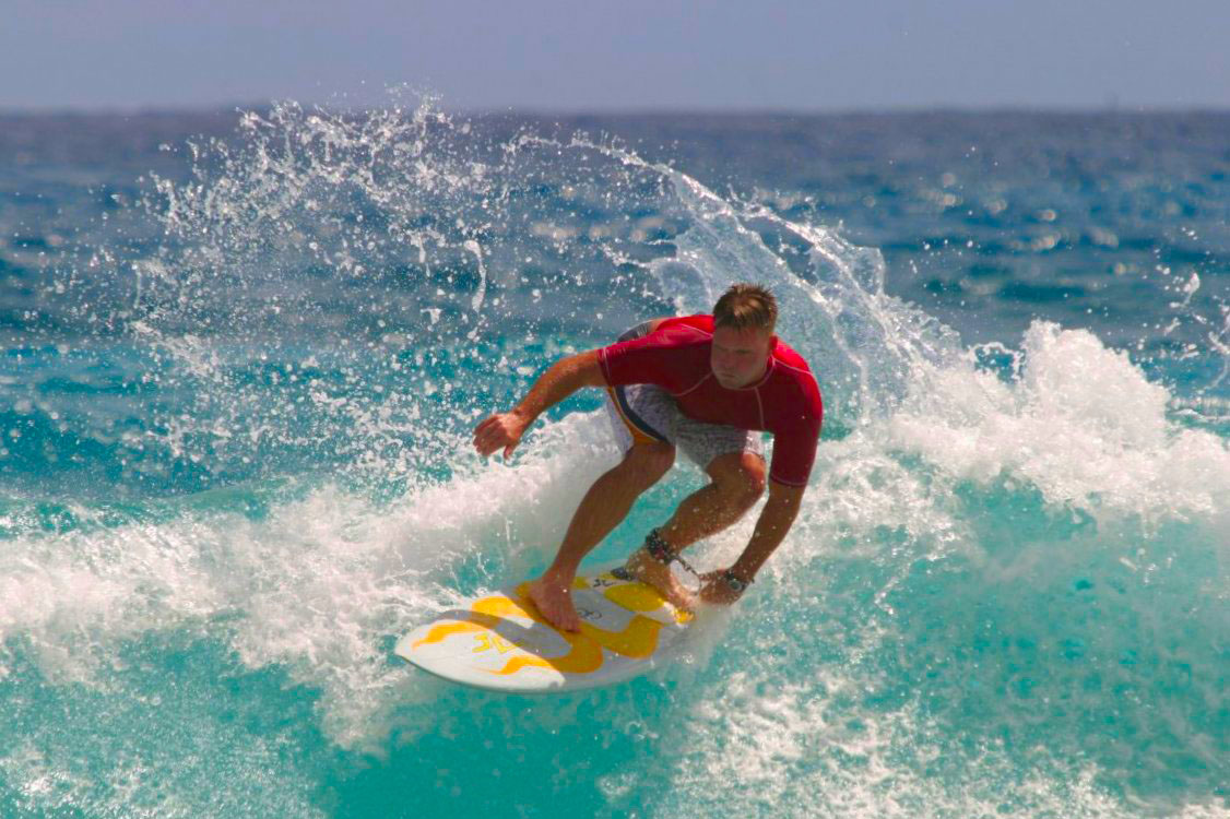 This image is a modification of Image:Surfing in Hawaii.jpg, with its LCh chroma (see CIELAB) increased by 50% in Photoshop, for comparative use in the English Wikipedia Colorfulness article. Original description: Surfing in Hawaii. A photograph of Kris Burmeister of the U.S. Marine Corps catching a wave during the first surfing contest of the year, the Pyramid Rock Surf Showdown. Photograph taken aboard the MCB Hawaii off the Marine Corps Base Hawaii in Kaneohe Bay.